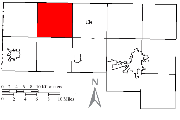 Made by the US Census and modified by myself